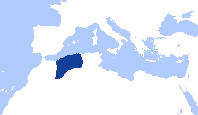 Zayyanid dynasty map